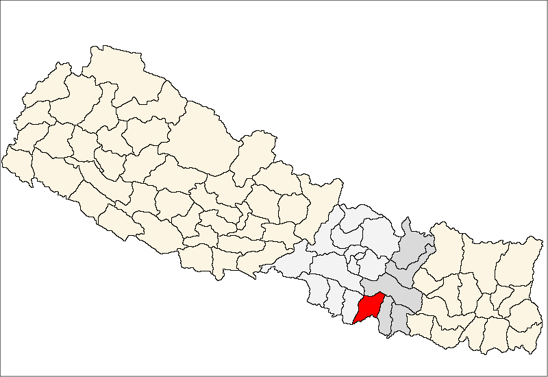 FrenchCarte de localisation dudistrict de Sarlahi(wp-FR),au Népal (wp-FR).EnglishLocation map ofSarlahi District(wp-EN),in Nepal (wp-EN).